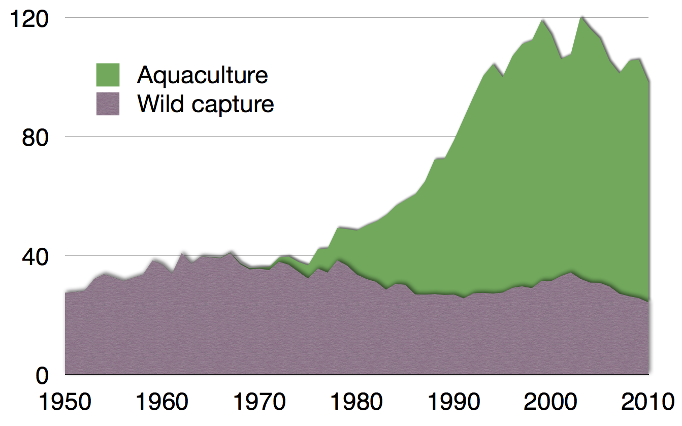 Total global harvest of farmed silver seabream, Pagrus auratus, in thousand tonnes, 1950–2010, as reported by the FAO. Based on data sourced from the FishStat database